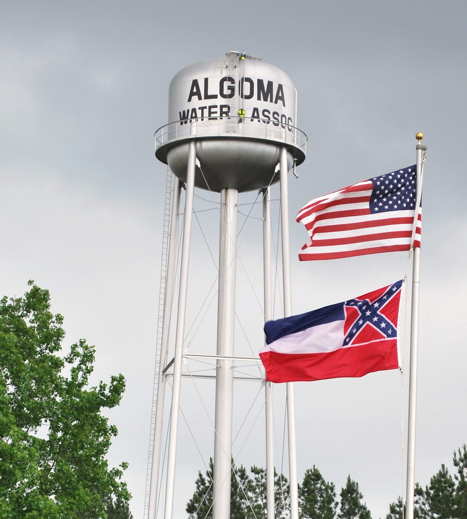 Photo by Michael Jones. The Algoma water tower in Pontotoc County, Mississippi. This photo may be used freely. Please credit the author.